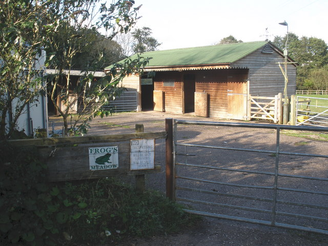 Stable, at Frog's Meadow The warning sign reads: "No trespassing. Violators will be shot. Survivors will be shot again".